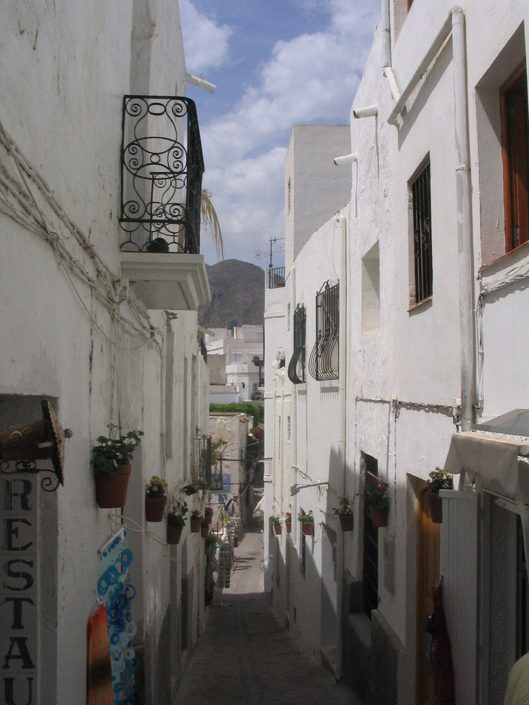 Street view in Mojacar